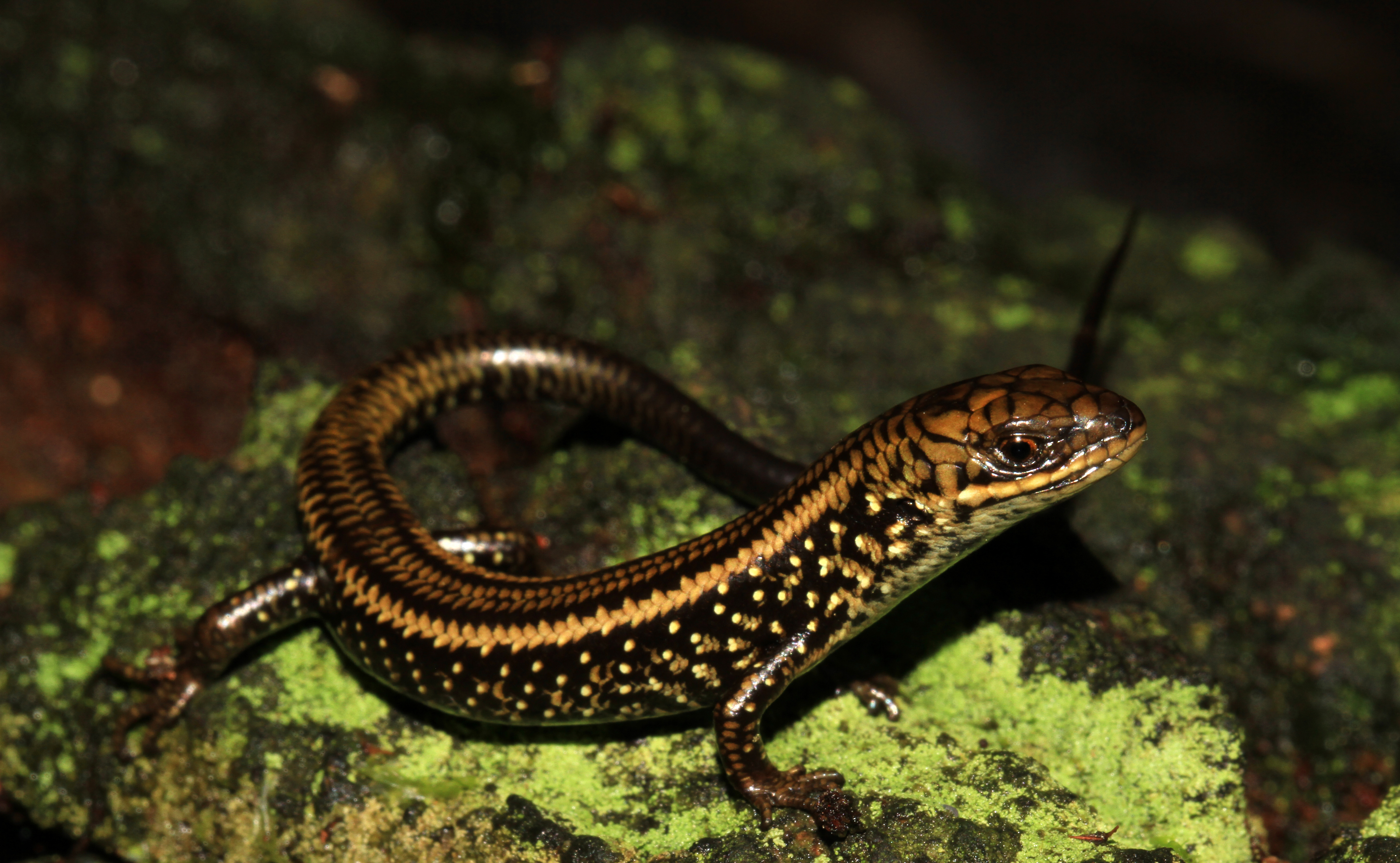 Juvenile Swamp Skink (Lissolepis coventryi)